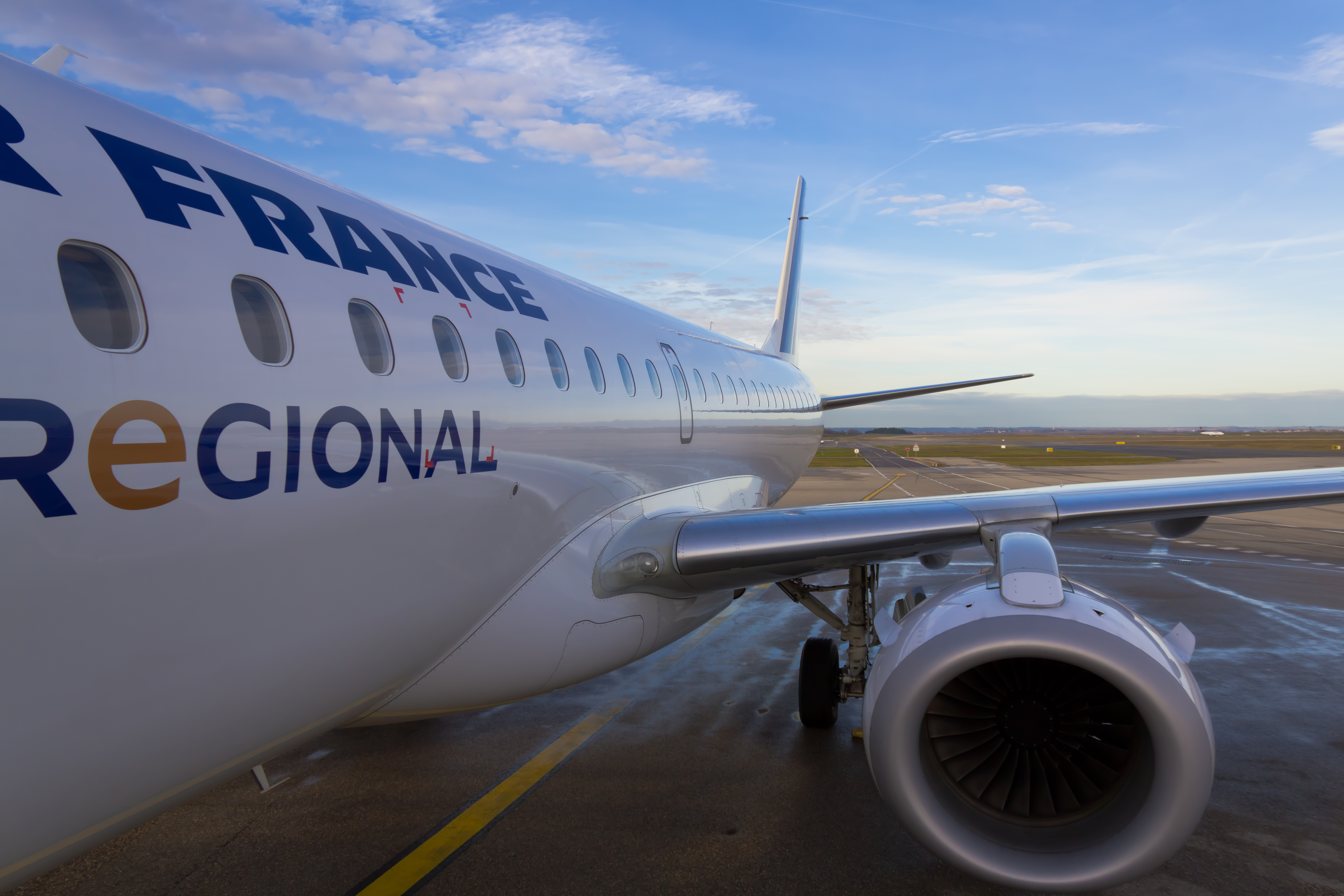 Fuselage of an Embraer 190 with aircraft livery Air France by Regional